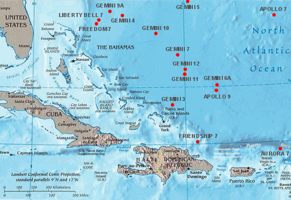 Caribbean splashdown locations of American spacecraft.